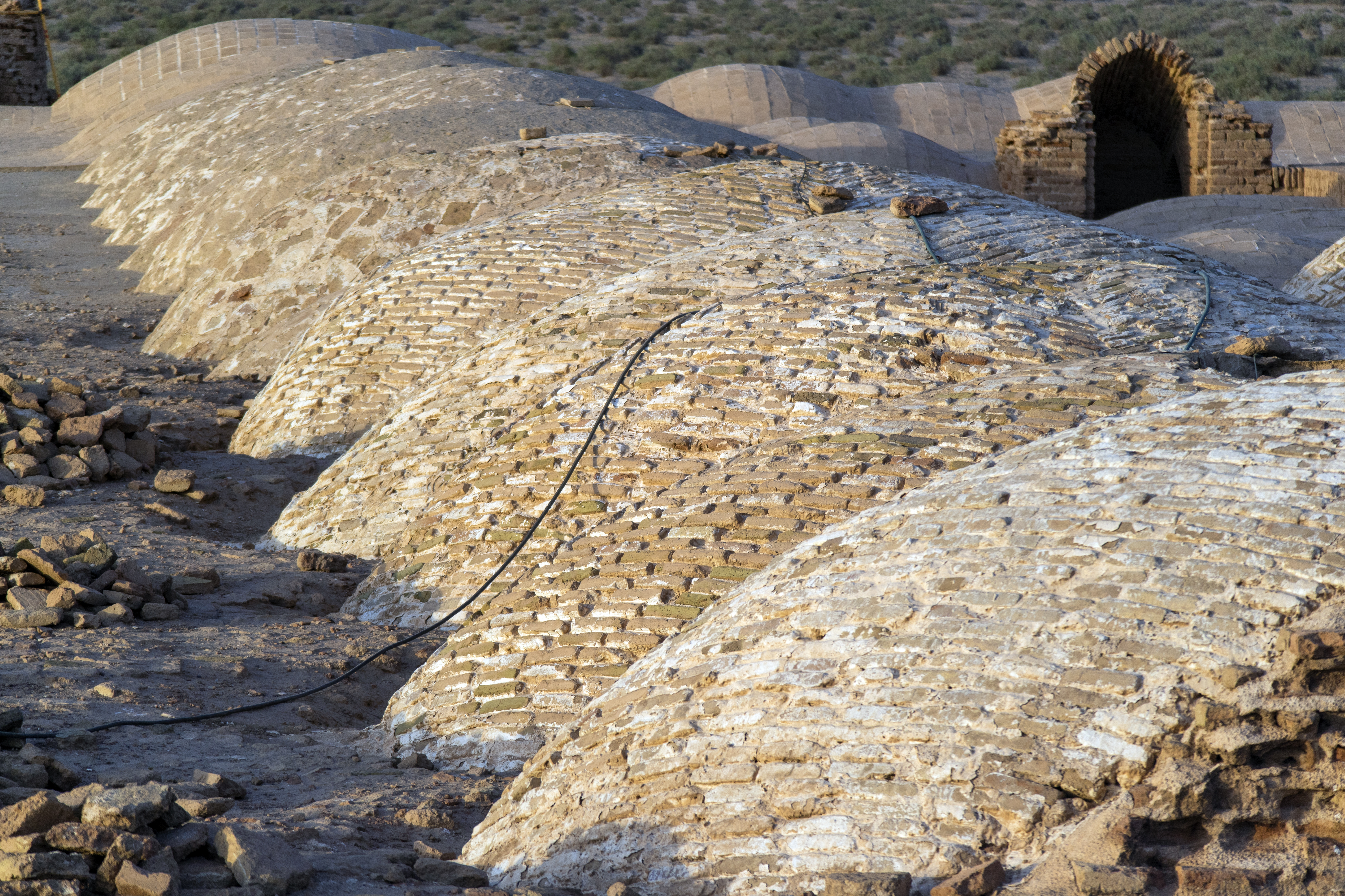 Deir-e Gachin Caravansarai is one of the greatest caravansarais of Iran which is located in the center of Kavir National Park. Its unique qualities is the reason it is called “Mother of Iranian Caravansarais”. It is located in the Central District of Qom County, 80 kilometers north-east of Qom (60 kilometers into Garmsar Freeway) and 35 kilometers south-west of Varamin. (Photo by: Mostafa Meraji, wiki loves monuments 2018)